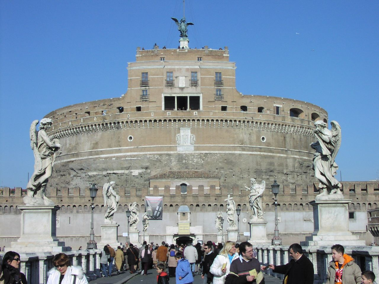 Castel sant'Angelo in Rome, picture taken from the Sant'Angelo bridge over the river Tiber. This castle used to be the mausoleum of Emperor Hadrian.